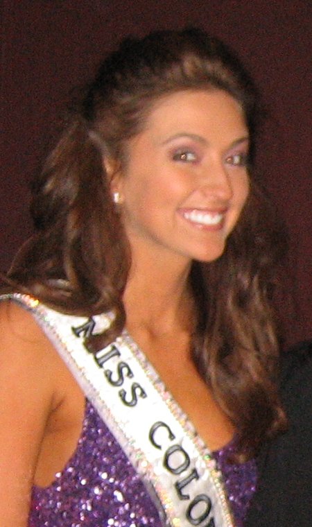 Beckie Hughes, Miss Colorado USA 2008, attends a sponsor party at the Sedona lounge in Las Vegas, Nevada prior to the Miss USA 2008 pageant.